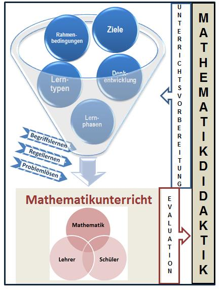 Diagram: Visualization of teaching mathematics, according to Friedrich Zech: Grundkurs Mathematikdidaktik, 7th edition 1992, ISBN 3-407-25100-9, p. 18.